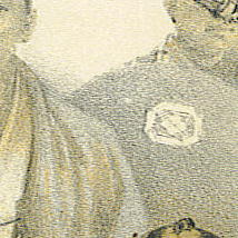 Cropped and enlarged segment of File:Matsue_daimyo_c1850s.jpg, detail of daimyo clan symbol on clothing of standing figure in background, illustration of Matsumae clan mon which looks a little like four diamond-shapes turned sideways